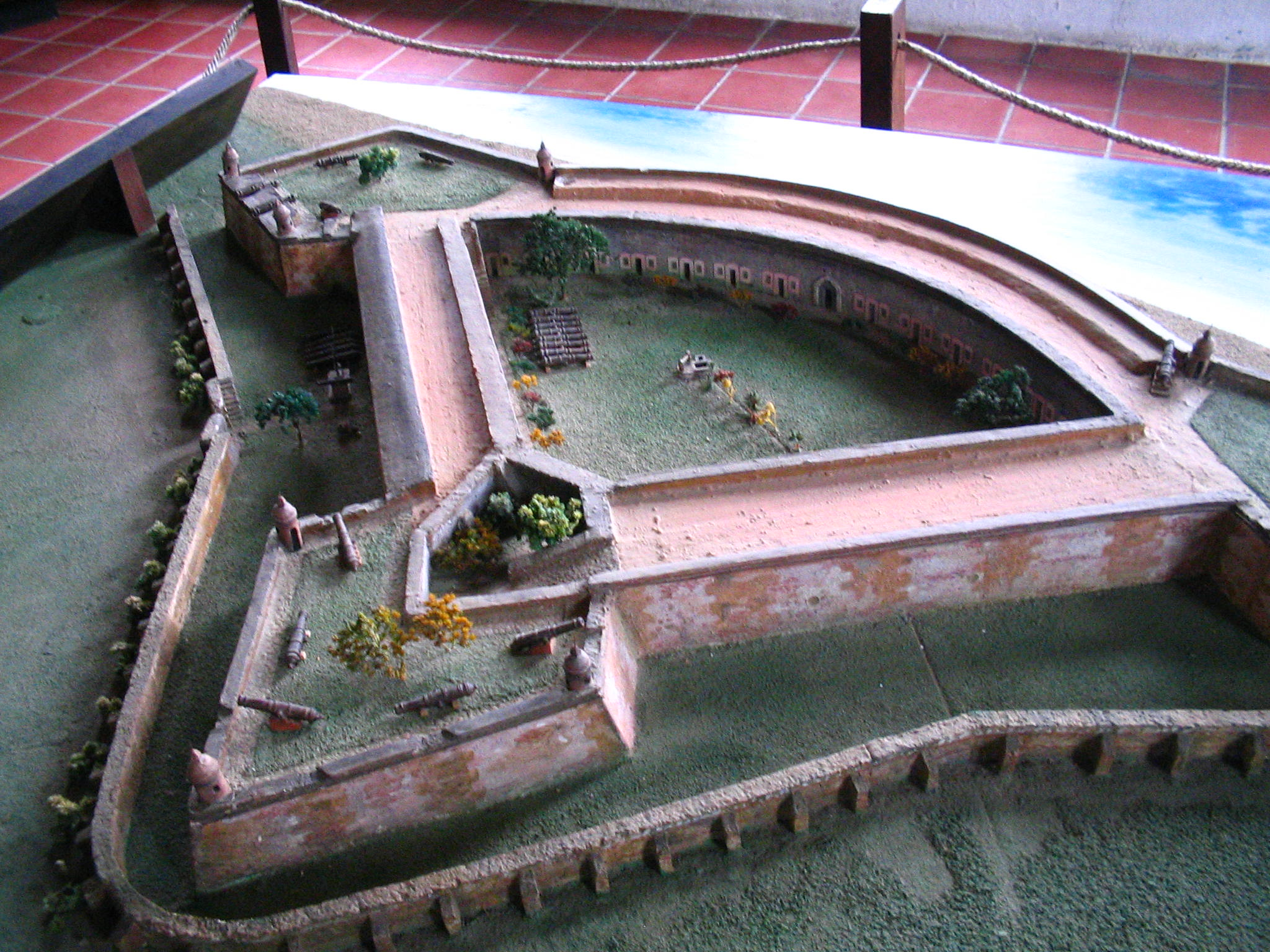 San Fernando de Omoa Castel